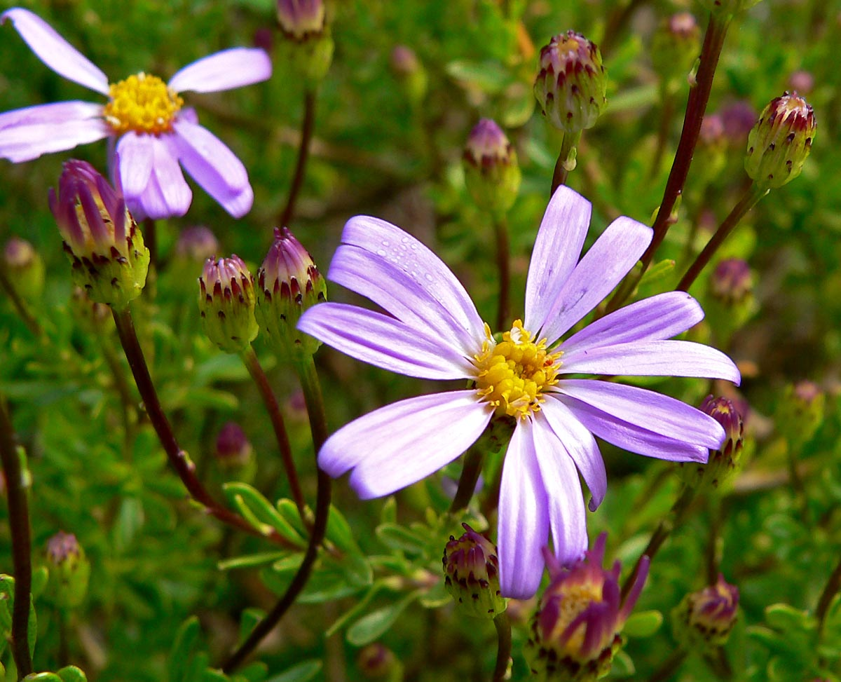 Photo of Felicia fruticosa at the University of California Botanical Garden